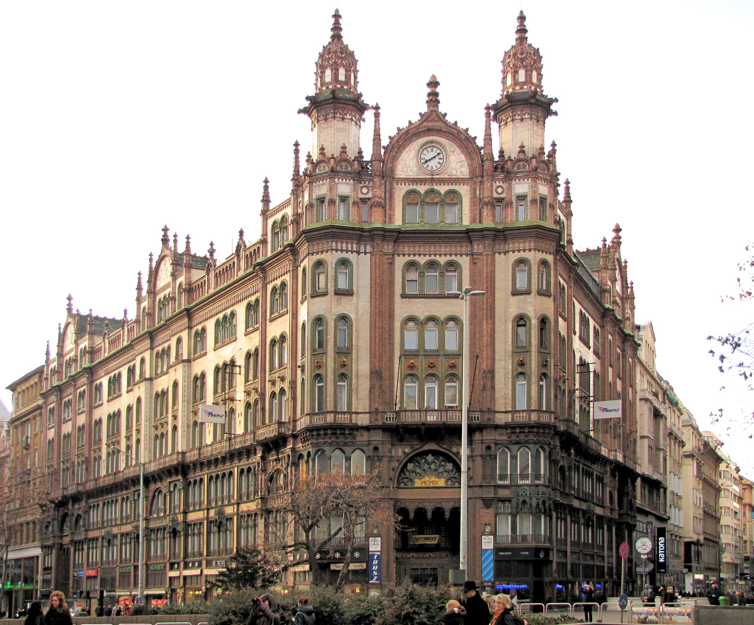 Párizsi udvar (Paris Court), Budapest, Ferenciek tere.